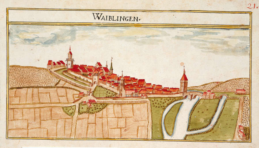 View of Waiblingen from the forest register books created by Andreas Kieser